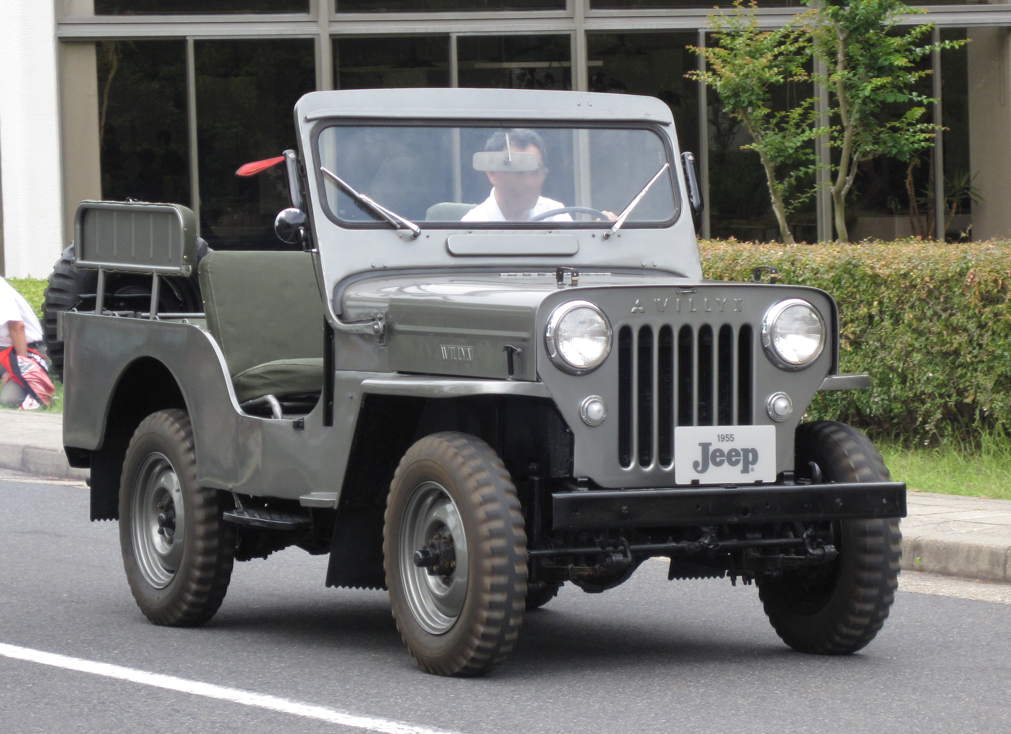 This is a photo of a 1955 Mitsubishi Jeep I took outside the museum for the Mitsubishi "Passenger Car Engineering Center" in Okazaki-city, Aichi, Japan